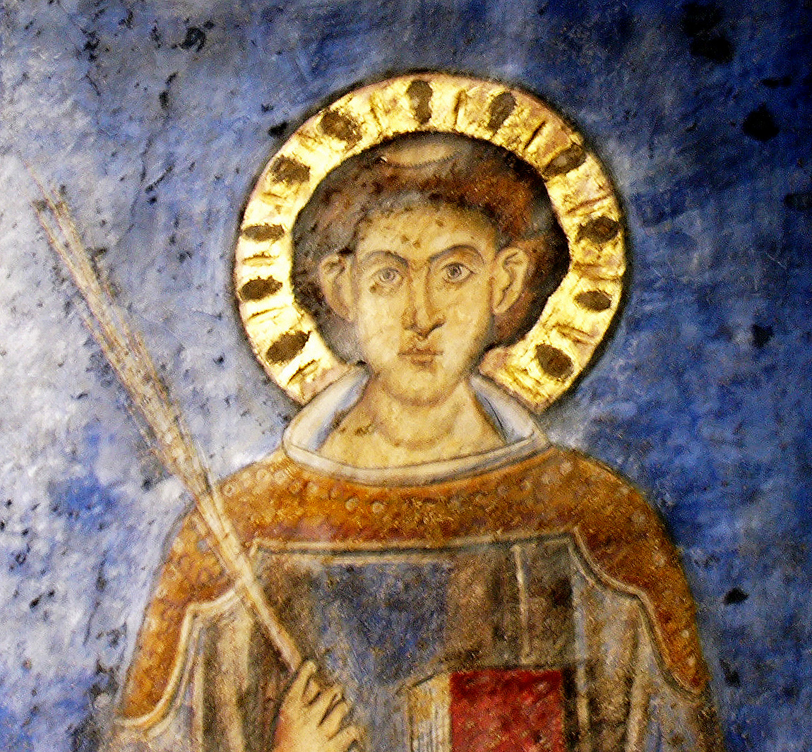 portrait picturing St. James as a pilgrim, fresco exterior wall Cathedral of Le Puy en Velay